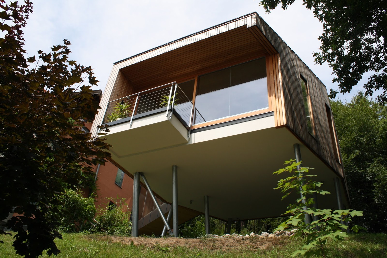 Ecohouse near Faaker See, district Villach Land, Carinthia, Austria, European Union